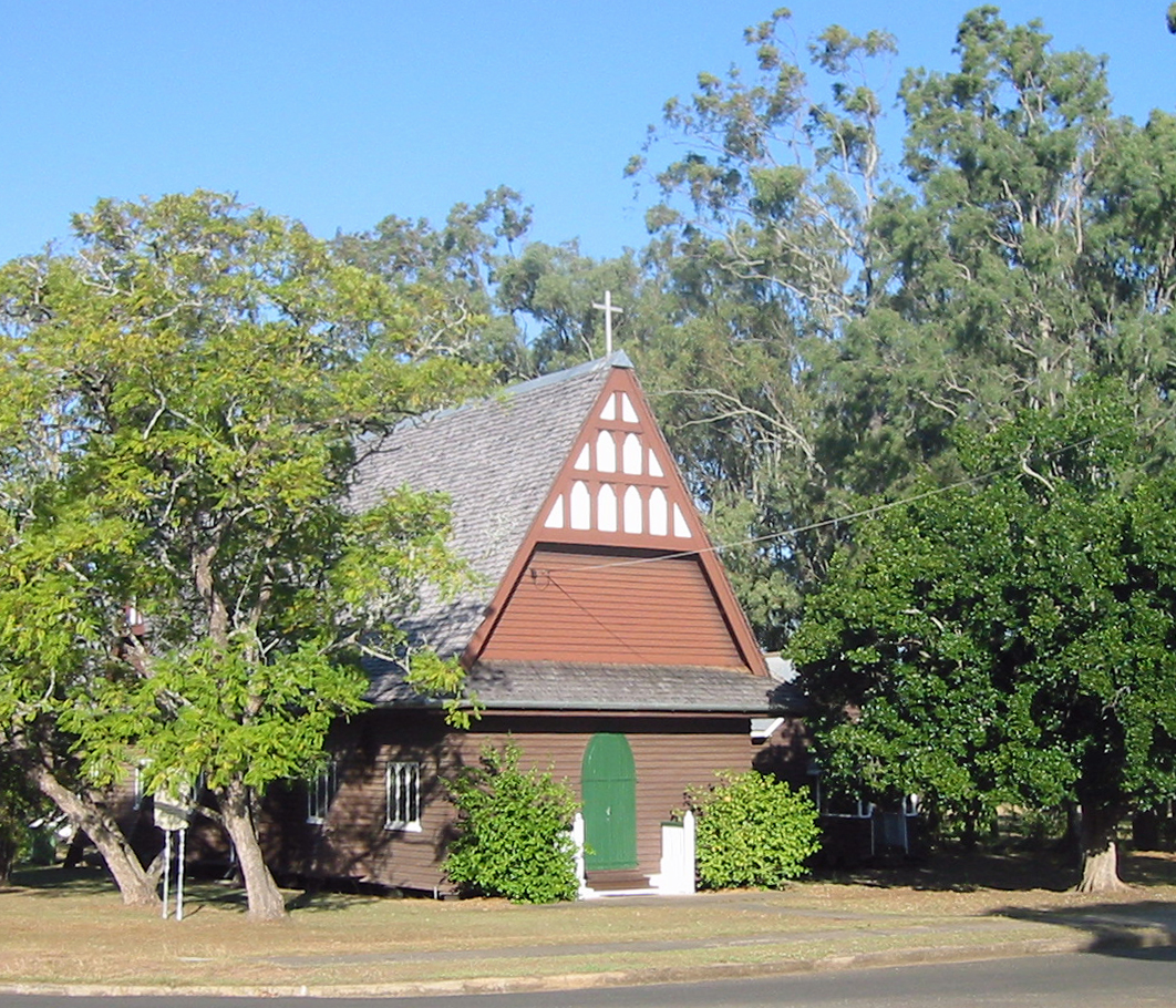 Heritage listed St. Andrew's Anglican Church, Toogoolawah (2006), designed by Robin Dods and dedicated in 1912 still displaying at its centenary in 2012 the notable shingle roof that was a feature of the original design.